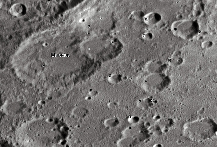 Barocius lunar crater as seen from Earth with satellite craters labeled